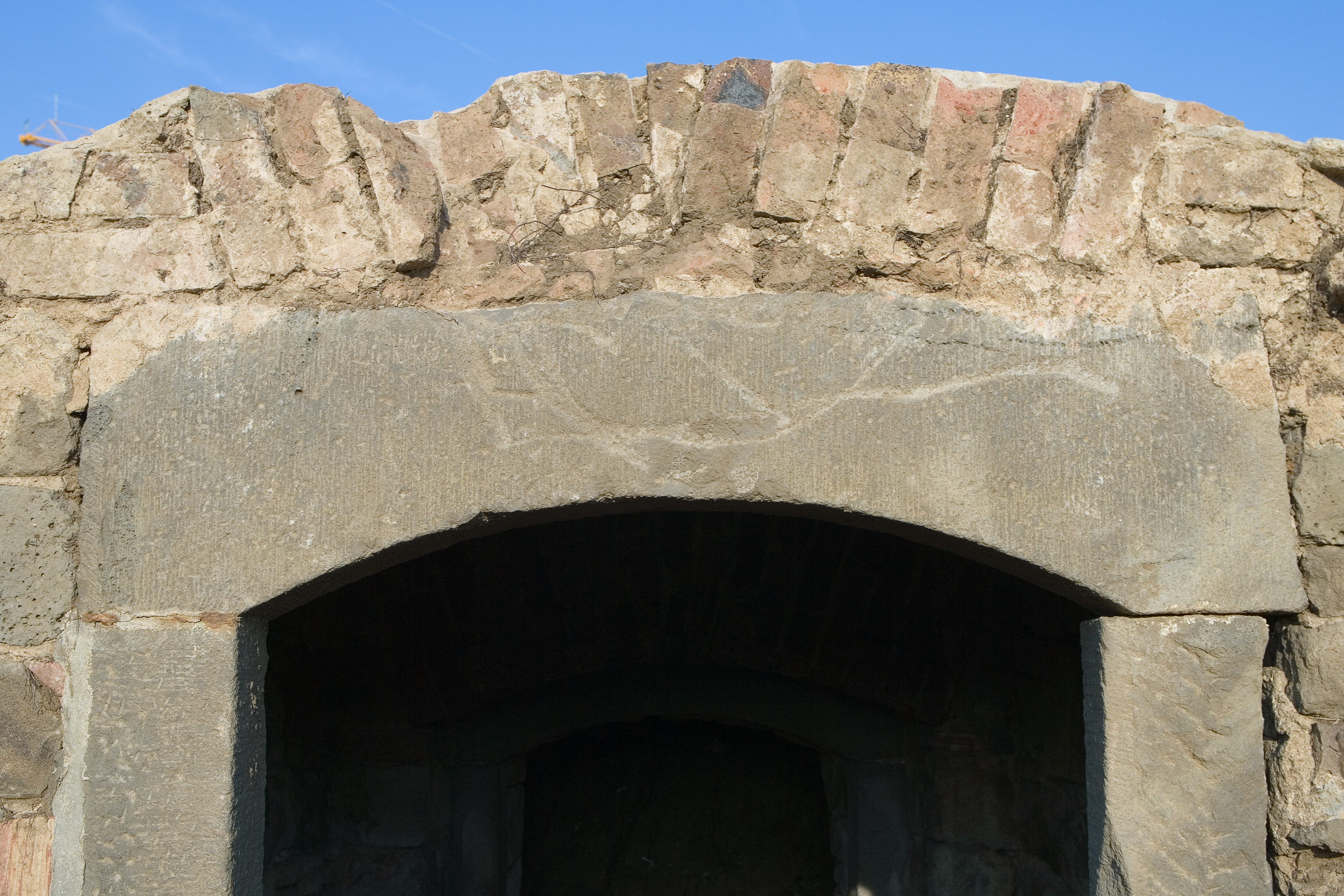 Frankfurt on the Main: Affenstein, Tower, detail of the lintel of the outer portal